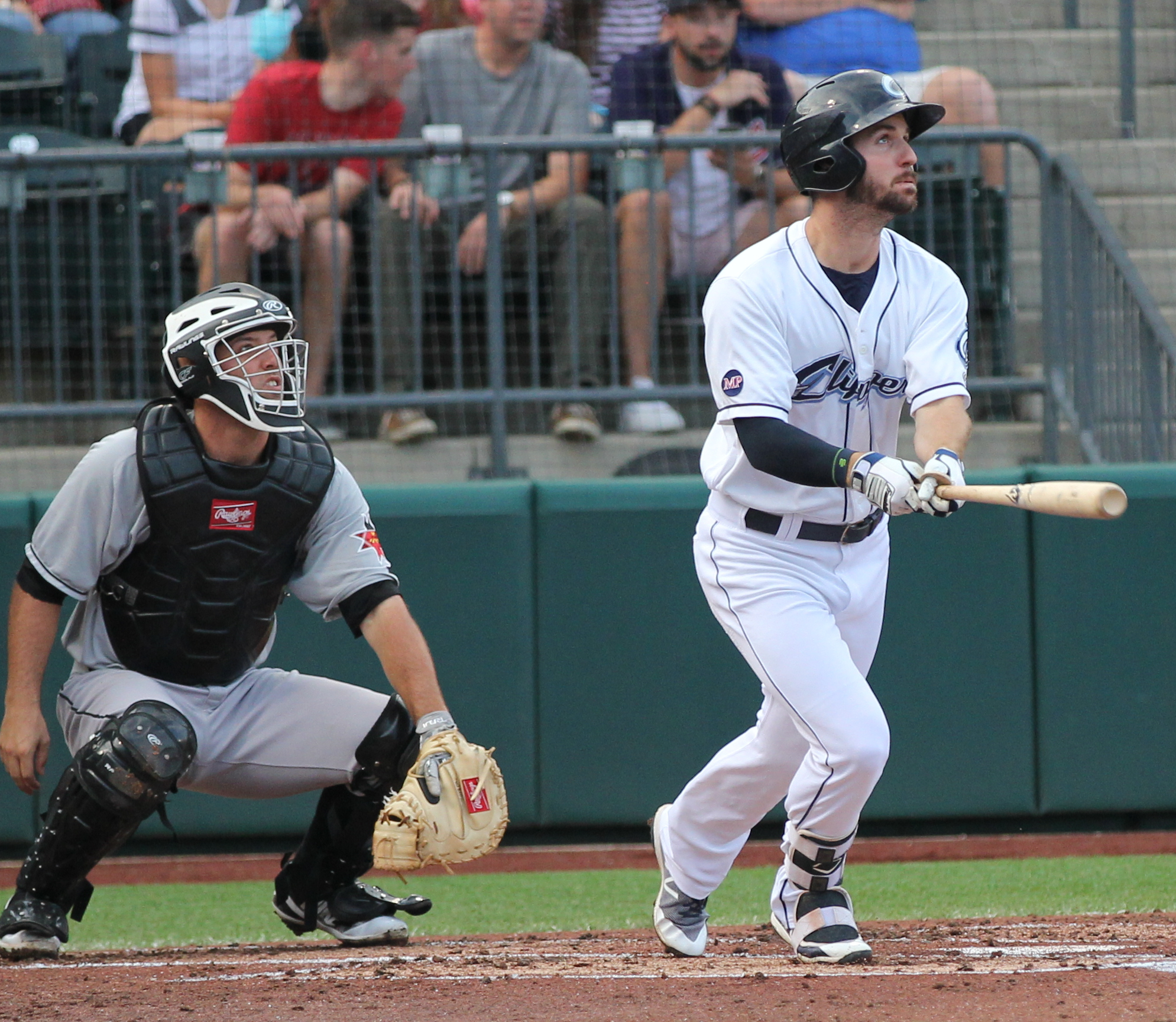 Mike Papi batting for the Columbus Clippers in 2018